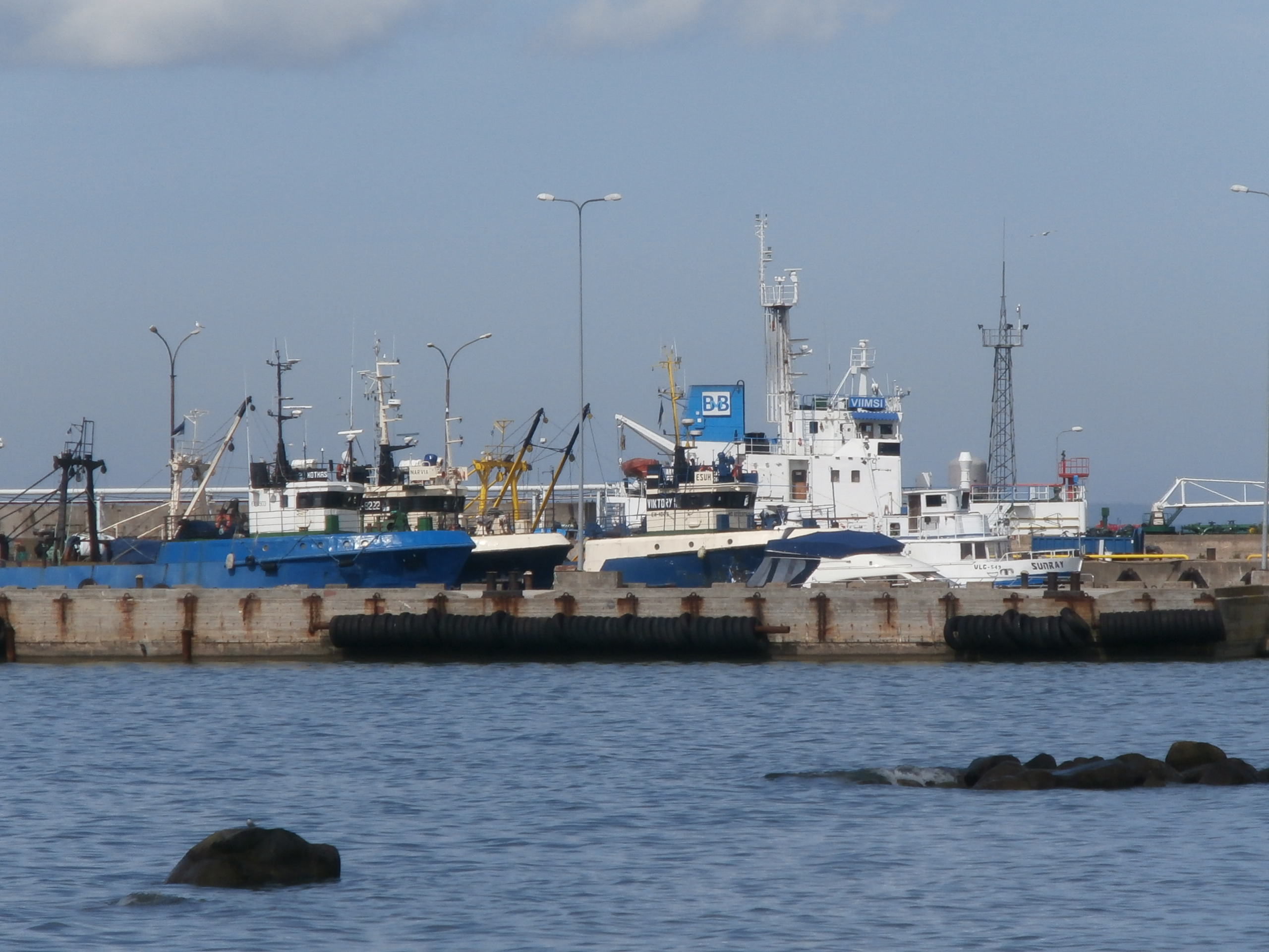 EK-0903 Kotkas, EK-9222 Narvia, EK-1003 Viktory, Viimsi, Sunray in Port of Miiduranna 2 June 2015